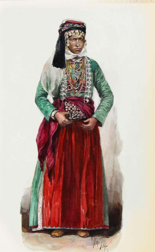 Yezidi Woman in tradiotional clothes